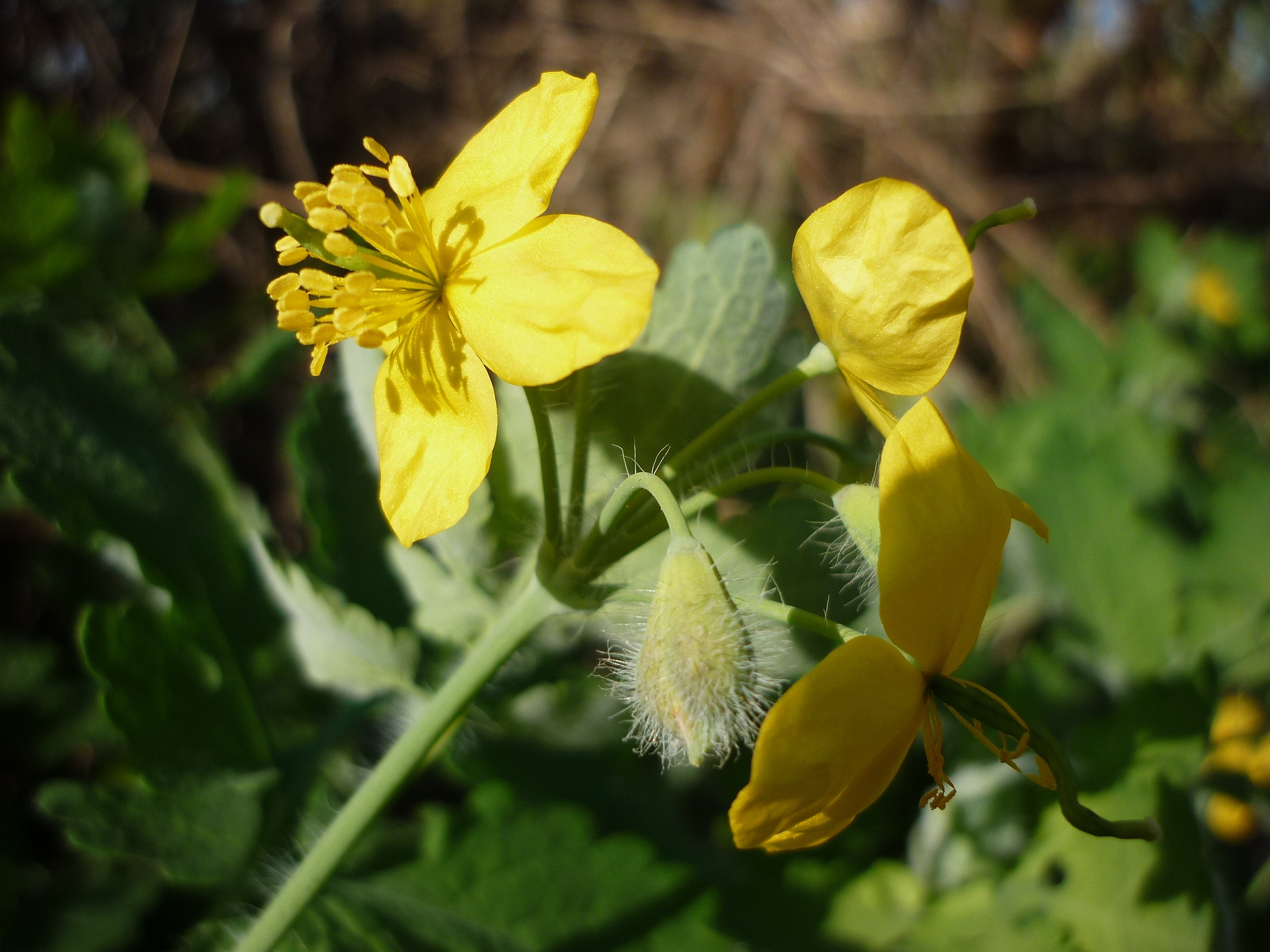 Chelidonium majus. In Torà (Segarra-Catalunya). To 430 m. altitude